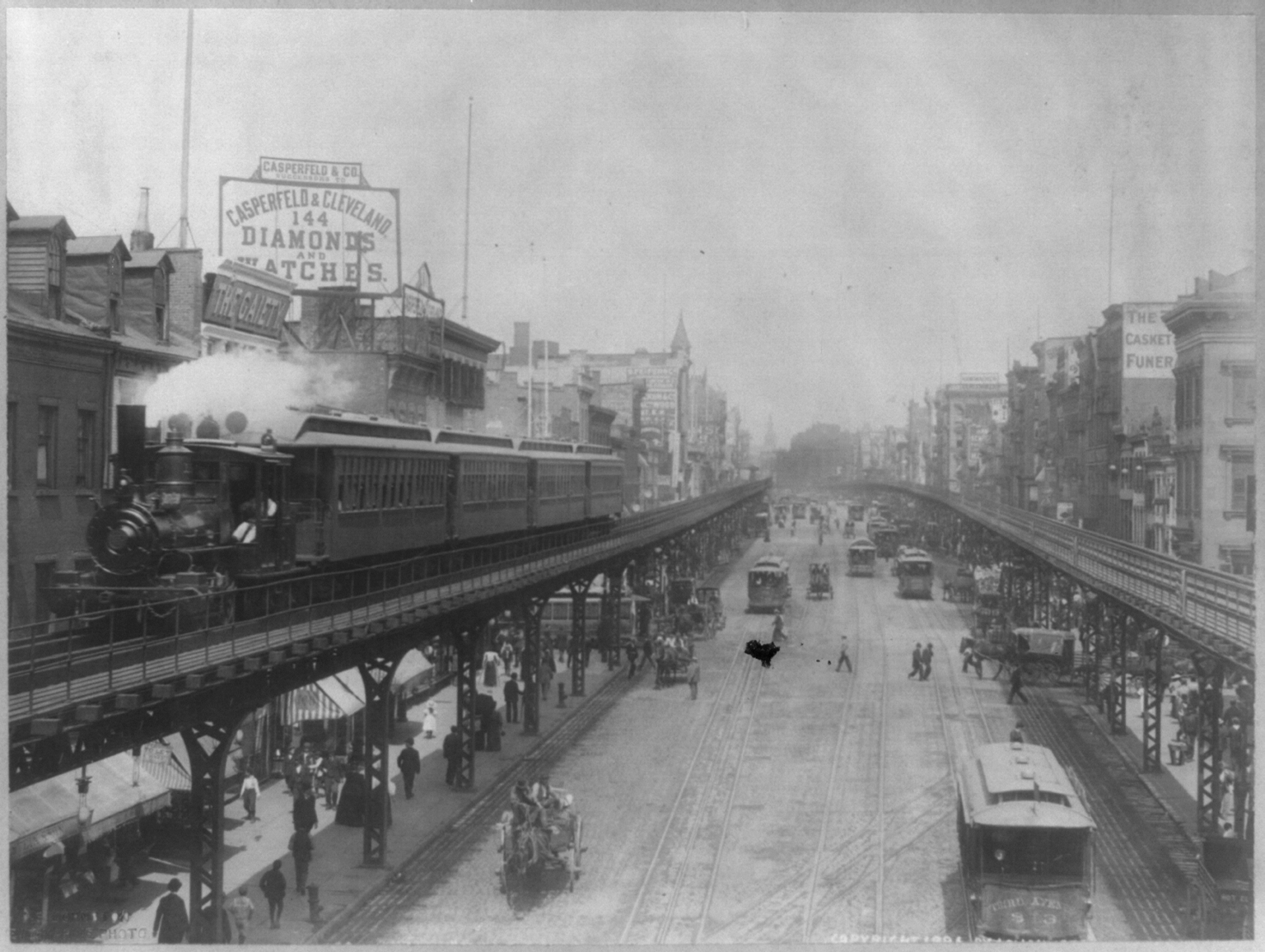 Elevated railroads in New York City: Looking north in the Bowery from Grand Street, taken in 1896.